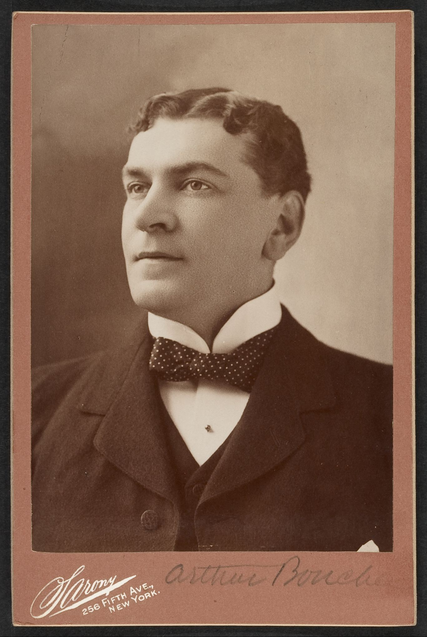 Cabinet card image of English actor and theatre manager Arthur Bourchier (1863-1927). Dated 1896 by source. TCS 1.3330, Harvard Theatre Collection, Harvard University